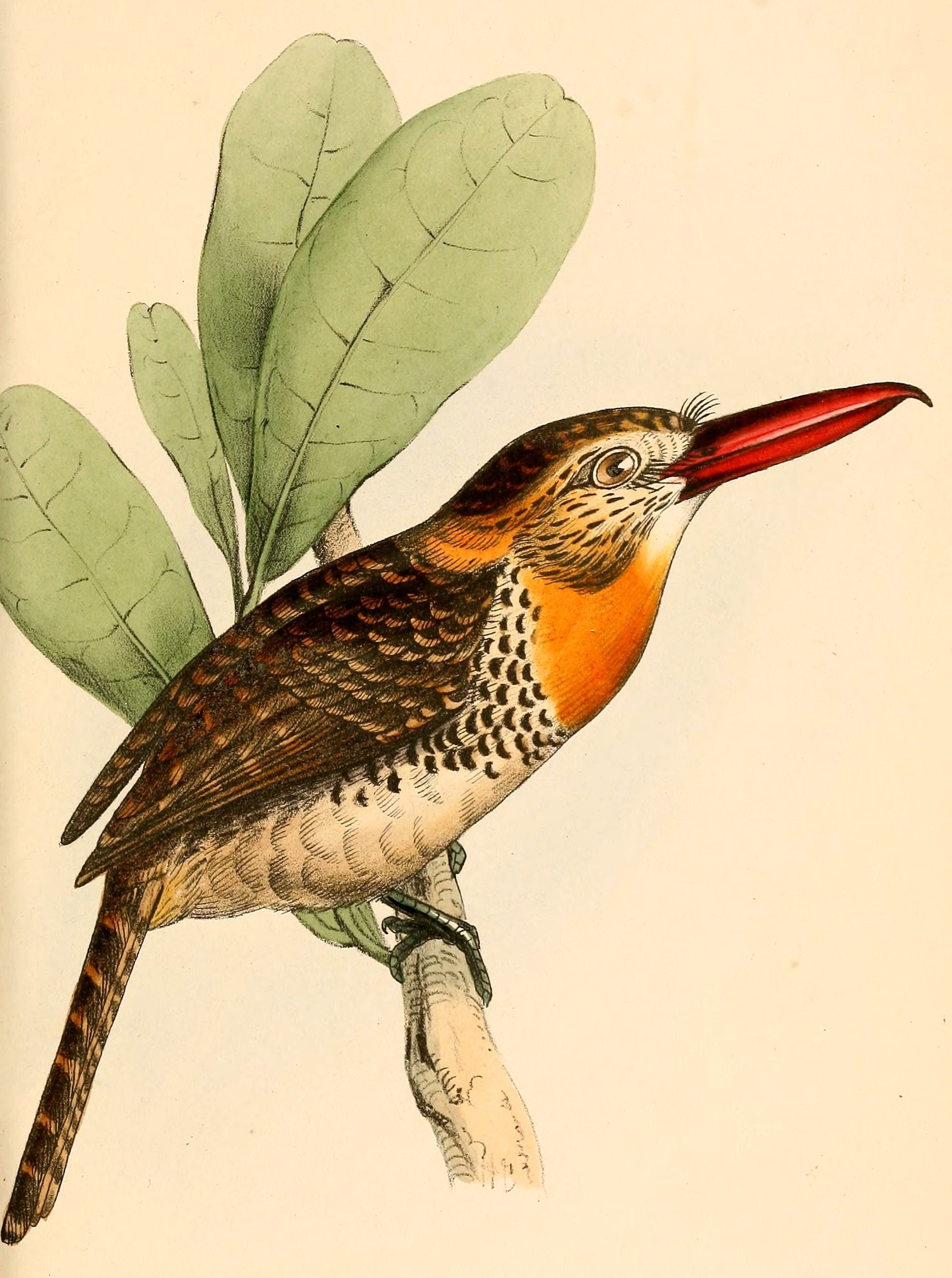 Tamatia somnolenta = Nystalus maculatus maculatus (Subspecies of Spot-backed Puffbird)